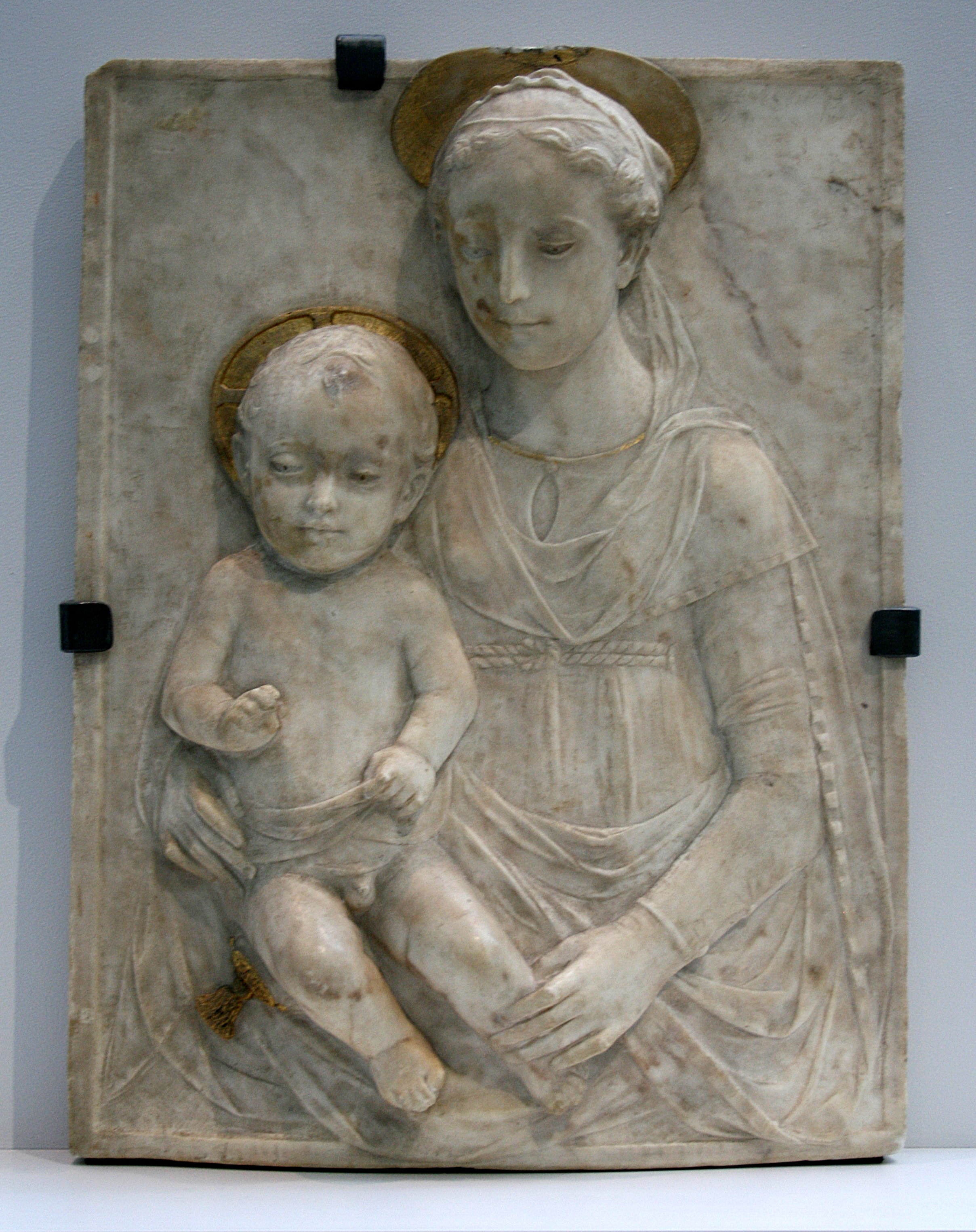 The Virgin and Child (H: 54 cm; W: 41 cm; D: 12 cm), work in marble and stone made in Italy around 1470 AD. AD, by Mino da Fiesole, bought in 1882 by the Louvre (RF 573) and photographed during its exhibition in the Galerie du Temps (December 4, 2012 - December 3, 2013) at the Louvre-Lens (France).